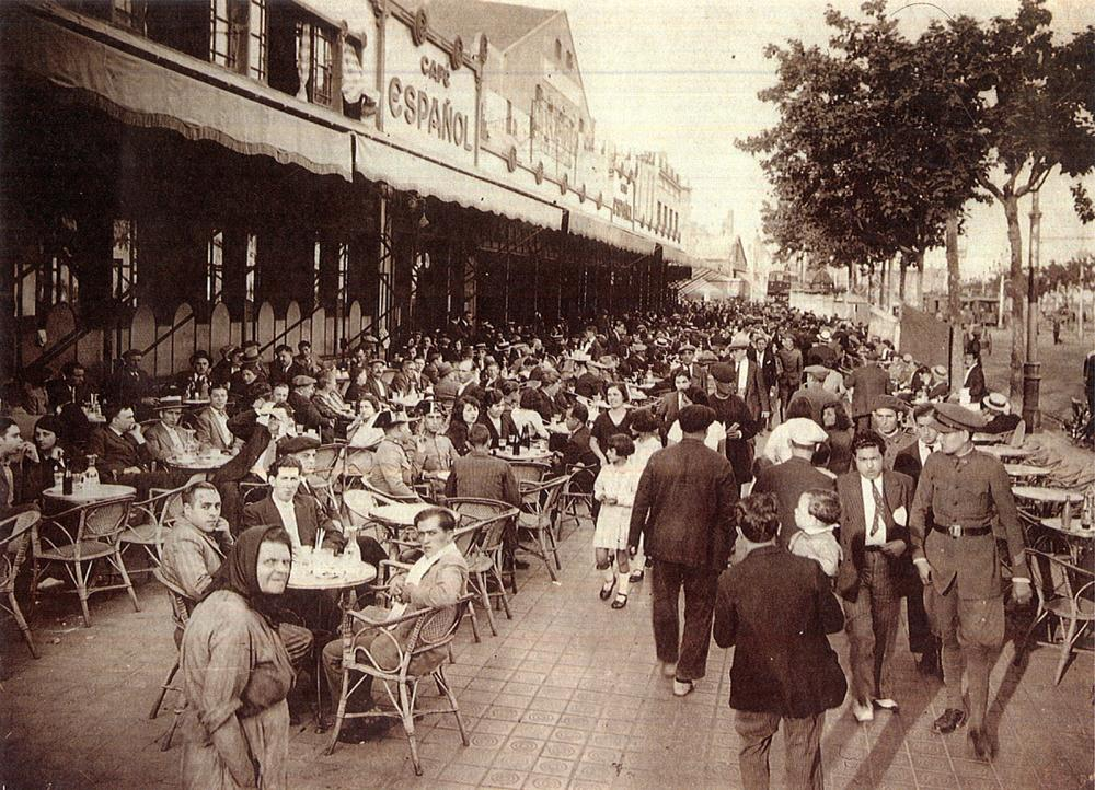 Café Español, at Paral·lel, Barcelona, Spain, popular cafe in the first third of the 20th cent.